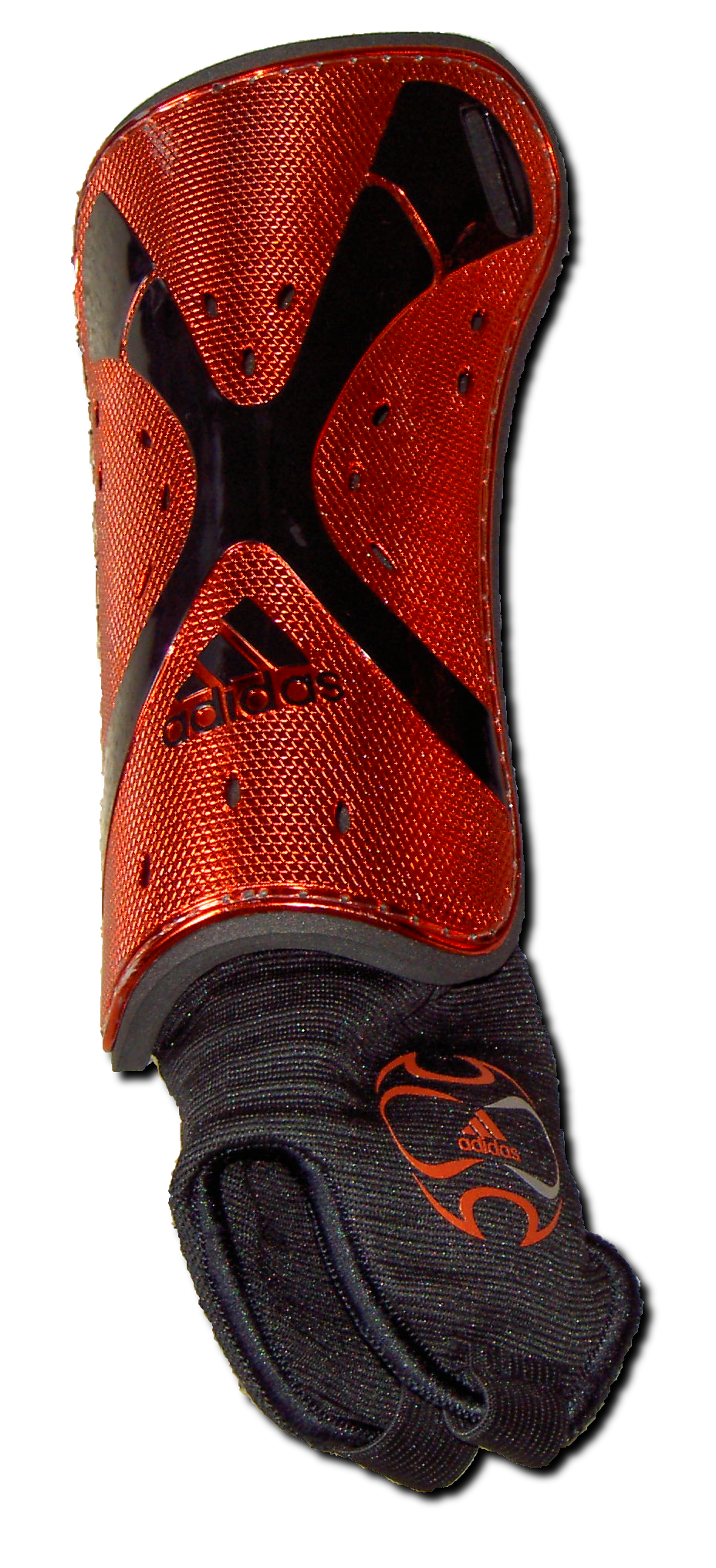 Shin guard from Adidas.